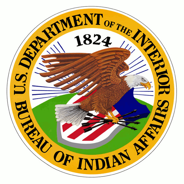 Bureau of indian affairs seal